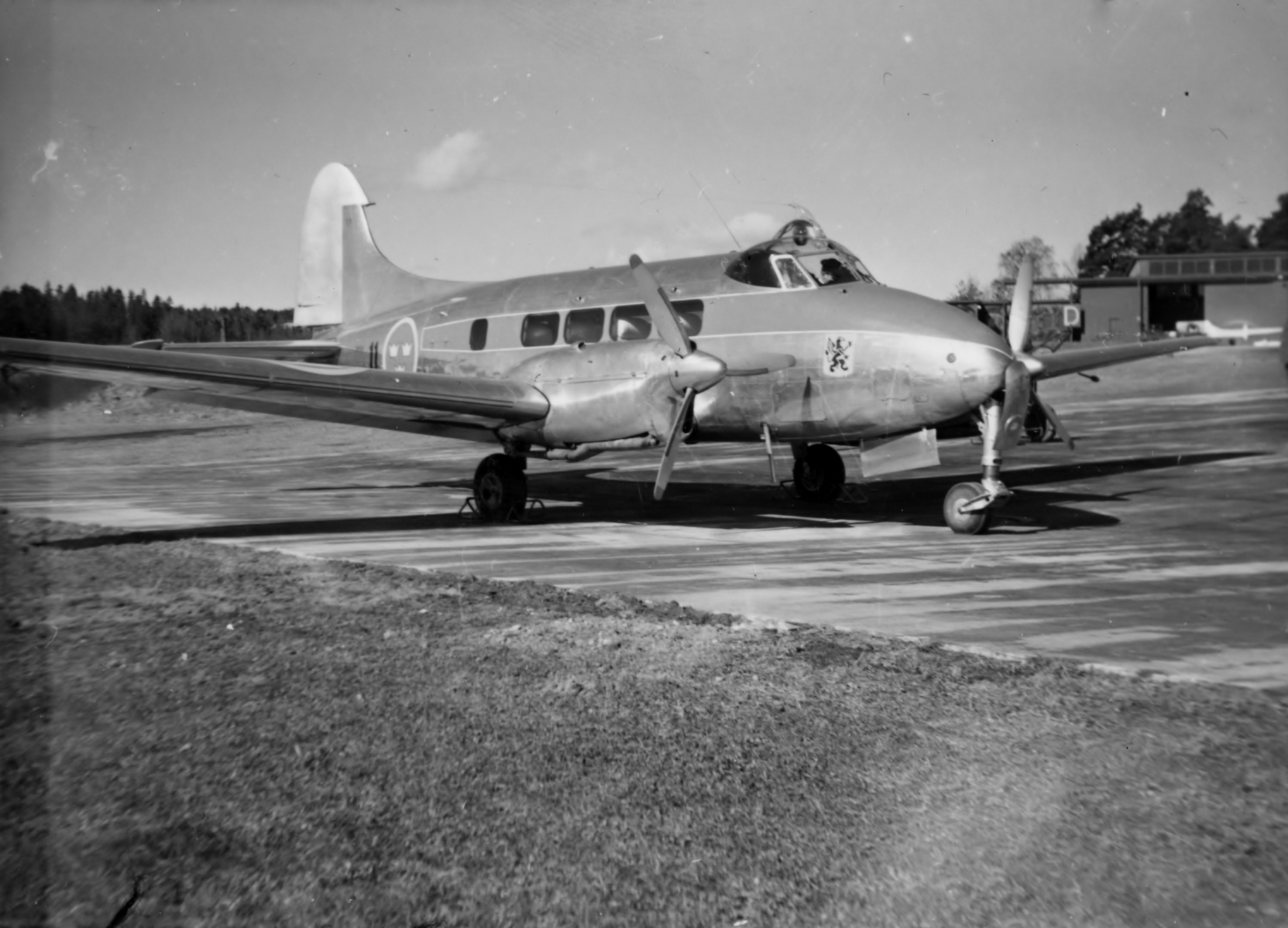 TP 26 Dove which has landed at F 8 Svea flygflottilj in Barkarby ca 1950-1951. Photographed by Georg Eriksson, conscript at F 8 during these years. From the Flygvapenmuseum's (Air Force Museum's) image archive.